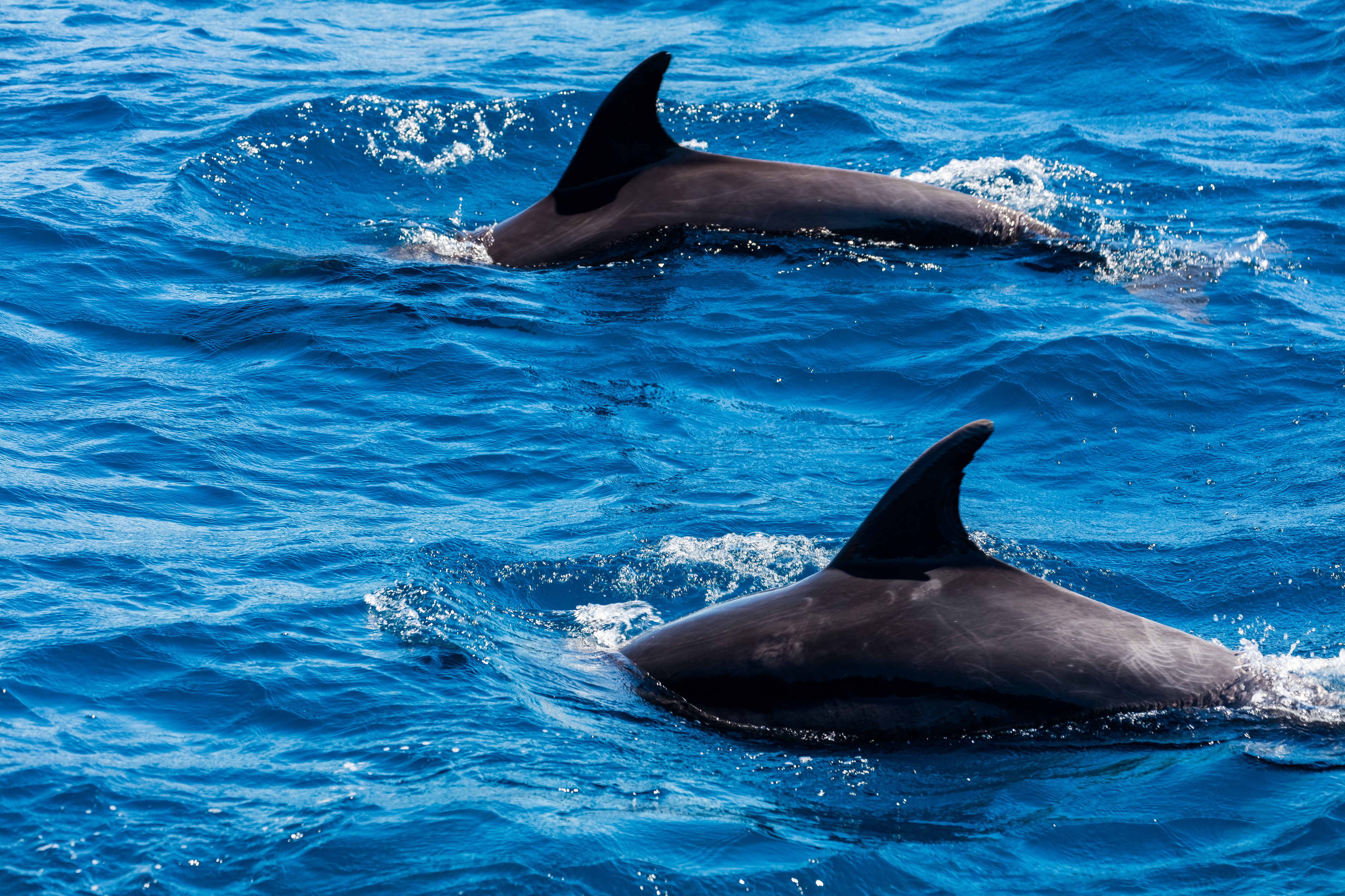 Common bottlenose dolphin (Tursiops truncatus), Las Bachas, Baltra island, Galapagos islands, Ecuador